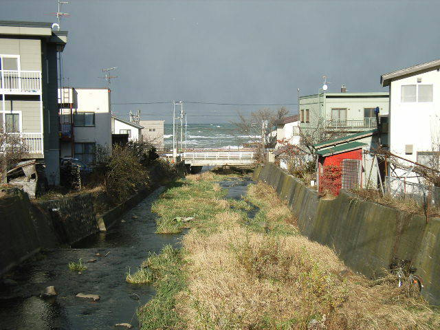 Zenibako River near its mouth. The bridge is Zenibako Simo-no-hashi (Lower Zenibako Bridge). Zenibako, Otaru, Hokkaidō, Japan.